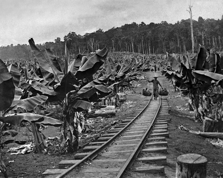 Chinese banana plantation, Geraldton. (Geraldton was renamed Innisfail in 1910.)